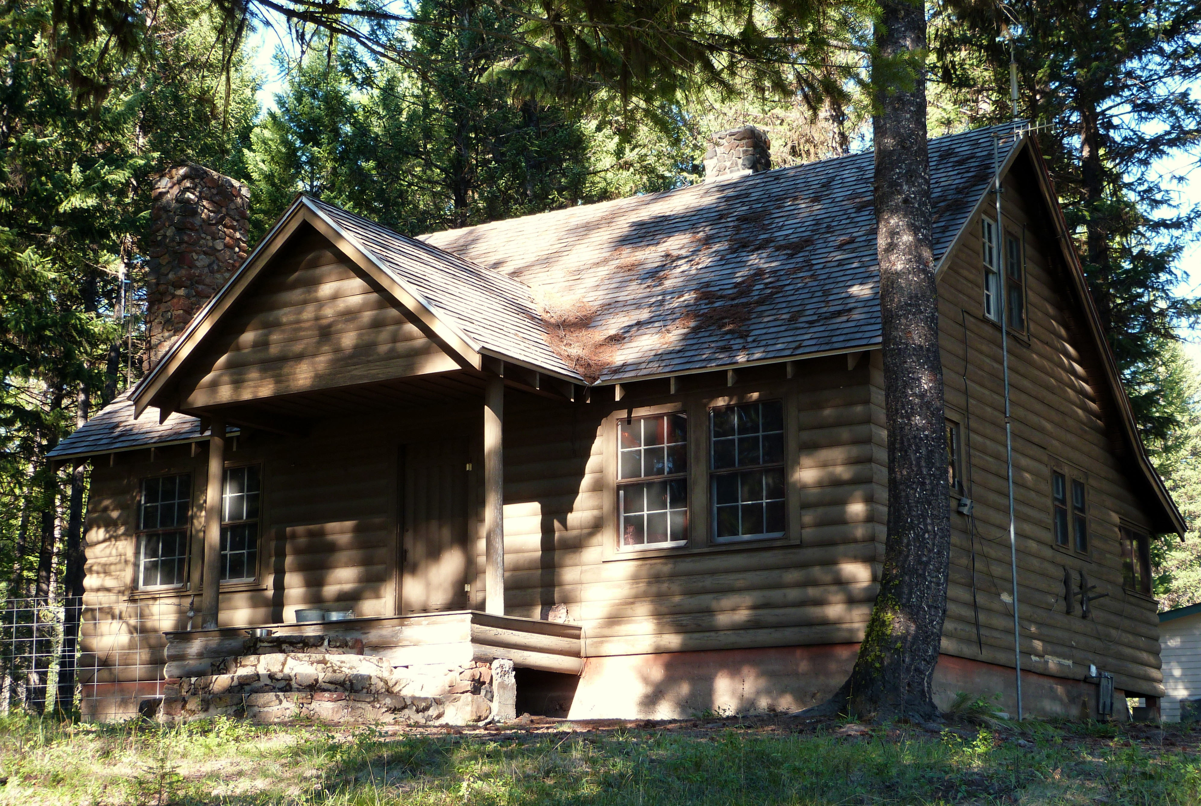 Residence # 1016 at the historic Billy Meadows Guard Station (built 1937) in the Wallowa–Whitman National Forest, Oregon, United States. The ranger station ensemble is listed on the US National Register of Historic Places.